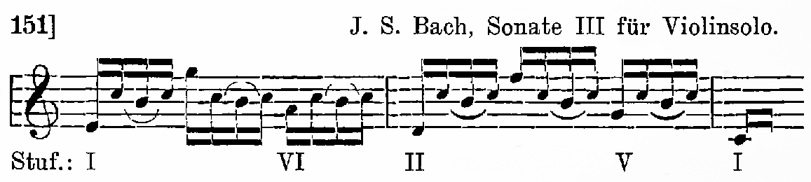 Schenker's Roman numeral analysis of J. S. Bach's Sonata in C major for violin solo, Allegro assai, bars 13-14.